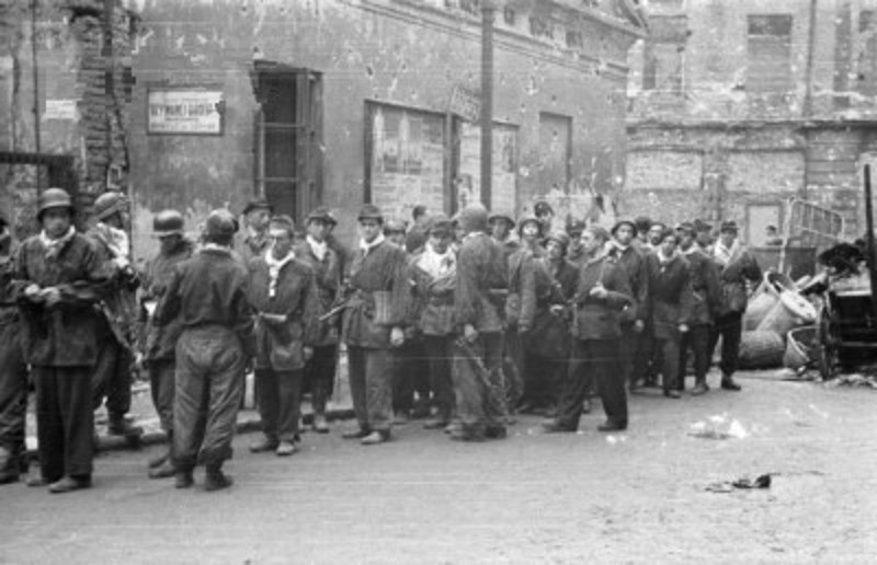 WarsawUprising: Part of "Anna" company from batallion "Gustaw" on the corner of Widok and Bracka Streets.